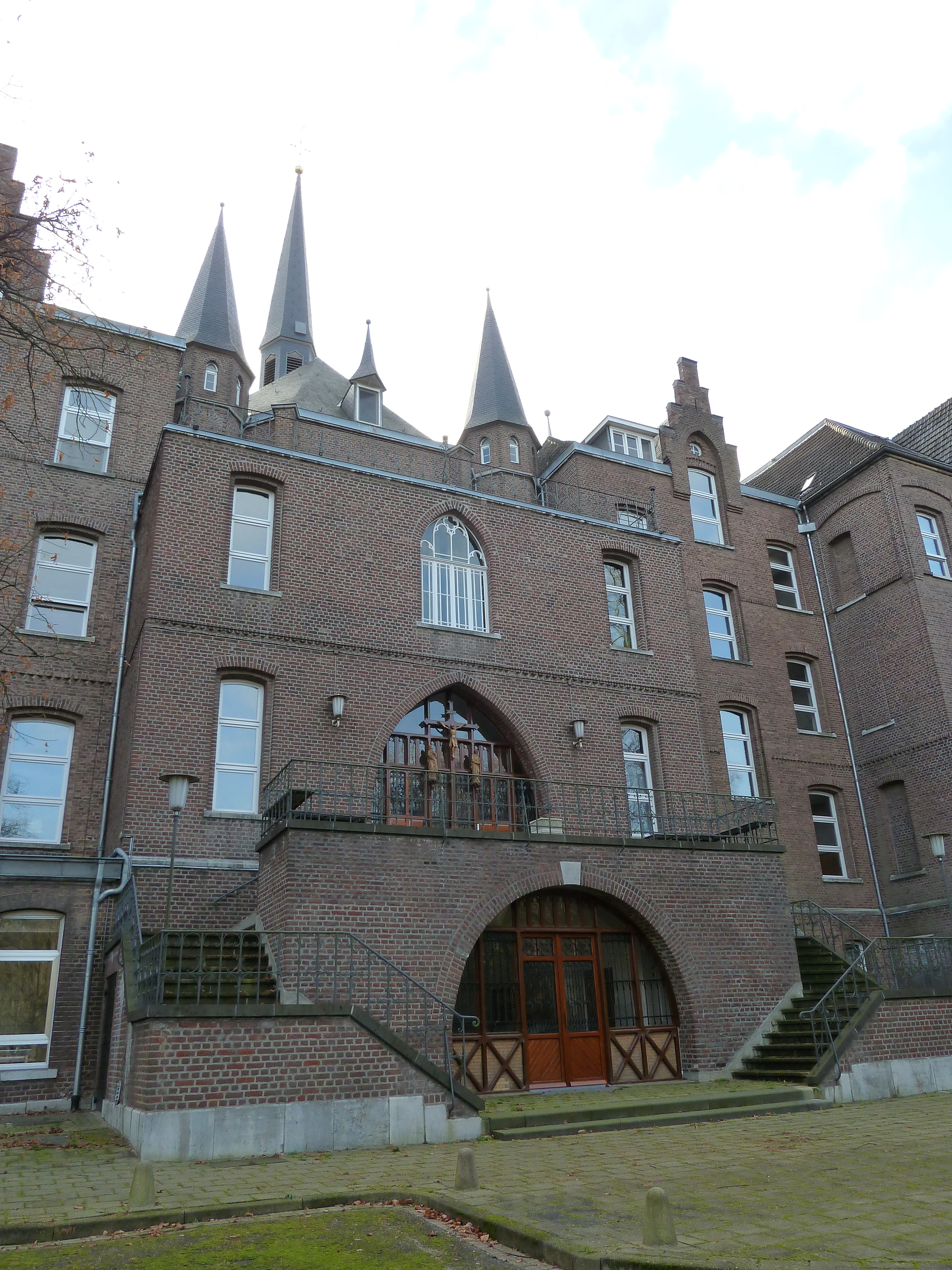 Huize Loreto, Simpelveld, Limburg, the Netherlands